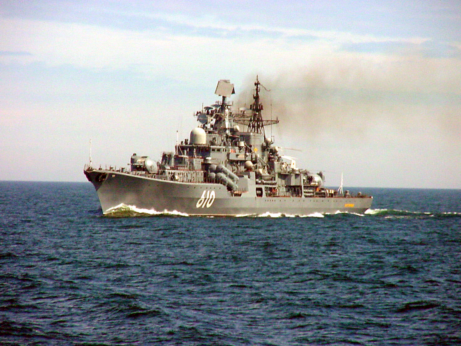 Russian destroyer RFS Nastojtshiwij (Natoychiviy) (DD 610) is currently underway off the coast of Ventspils, Latvia, on June 6, 2005, participating in Baltic Operations (BALTOPS) 2005. In its 33rd year, BALTOPS is a maritime and land international exercise, co-hosted by Latvia and the United States, which includes 11 nations, 4,100 people, 40 ships, 28 aircraft and two submarines in the spirit of "Partnership for Peace (PFP)." BALTOPS 2005 improves interoperability with allies and PFP countries by conducting peace support operations at sea to include a combined amphibious landing and a scenario dealing with potential real world crisis.